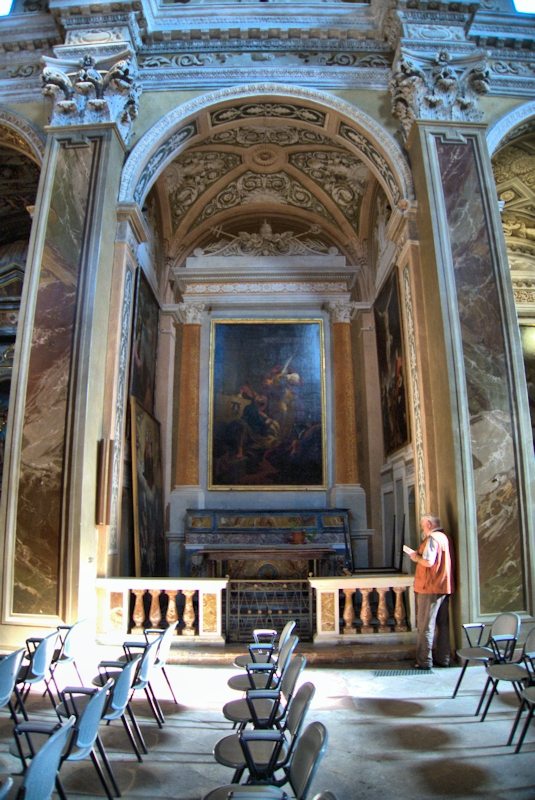 Chapel of St. Peter